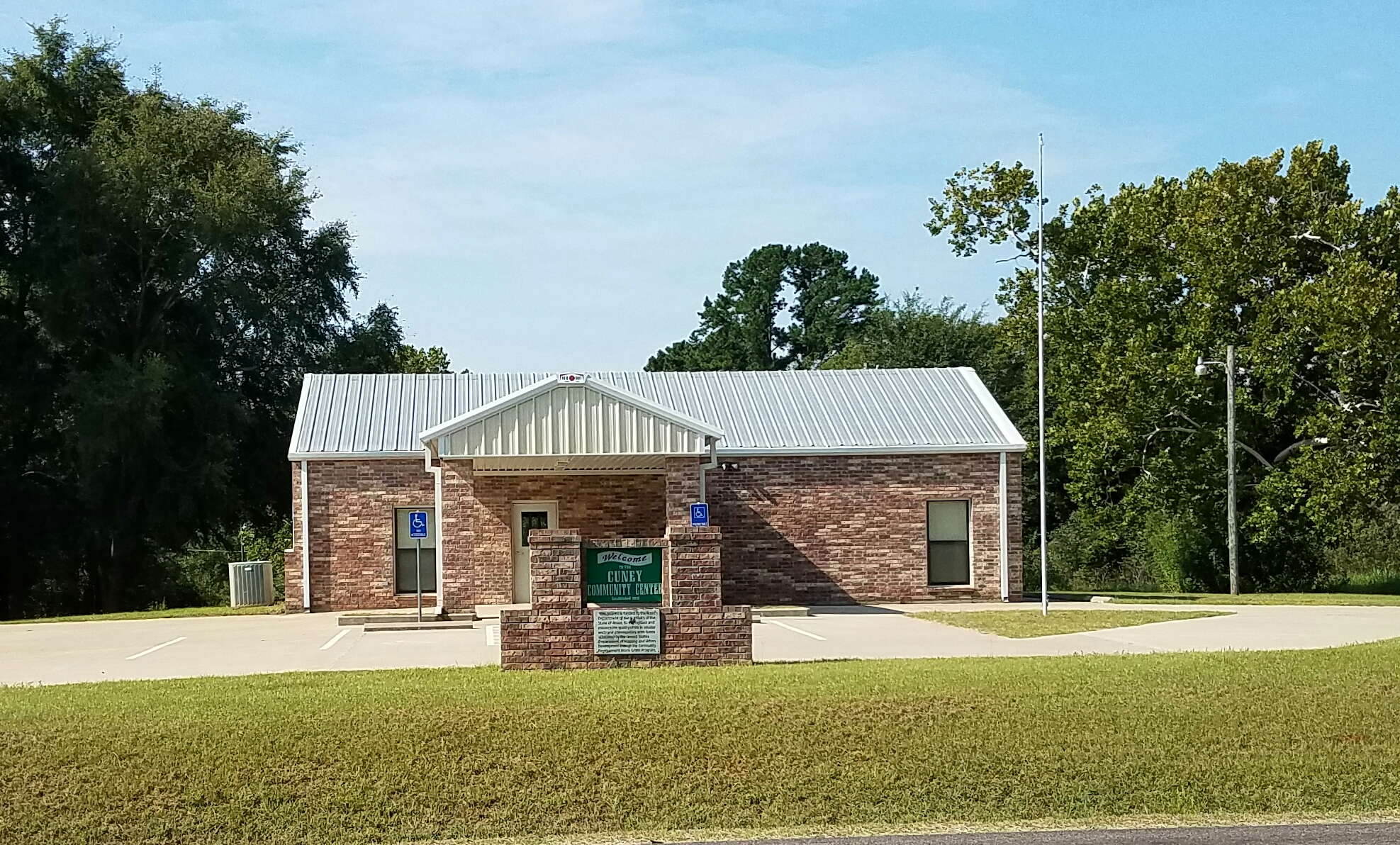 Facade of community center that serves the town of Cuney, Texas